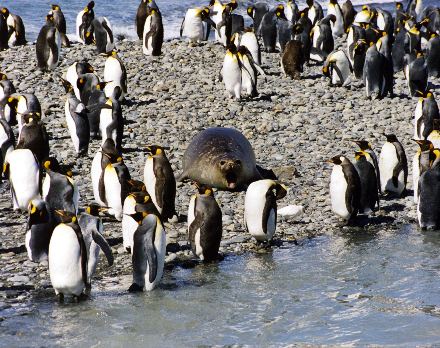 King Penguins and Southern Elephant Seal at South Georgia Island. Photograped by Brocken Inaglory in January, 1999.